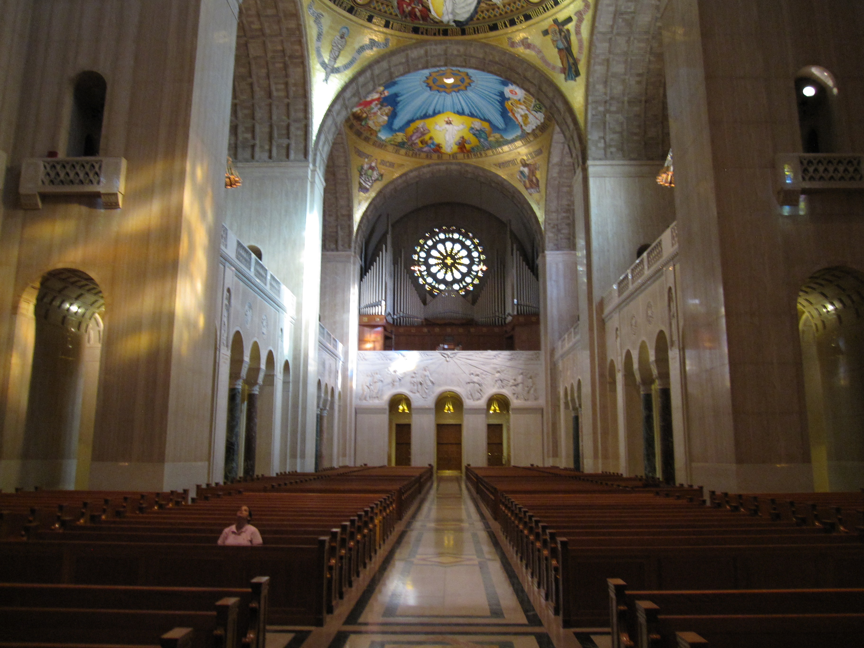 Interior of the Basilica of the National Shrine of the Immaculate Conception in Washington, D.C.